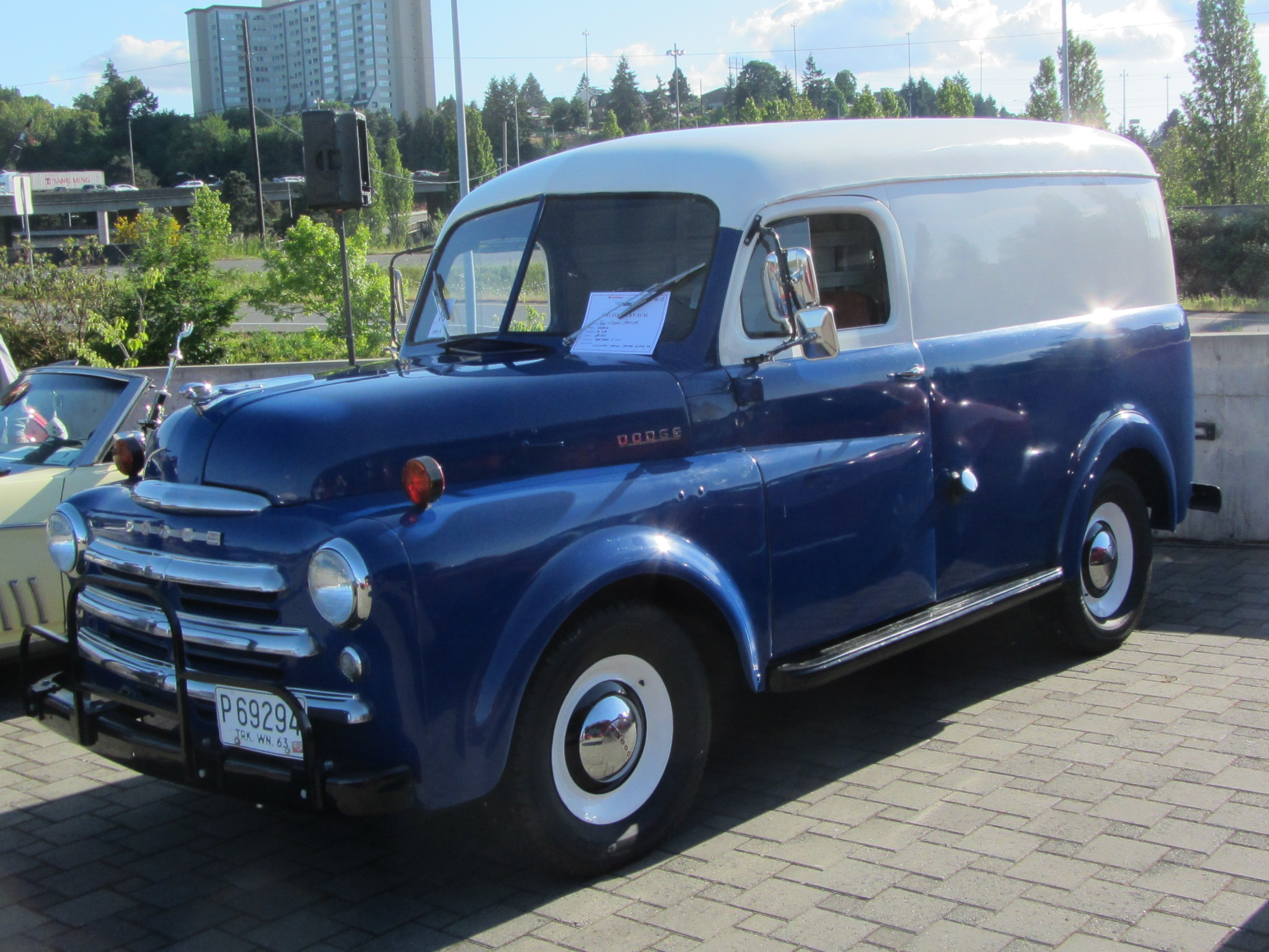 Cruise in at the LeMay Museum in Tacoma